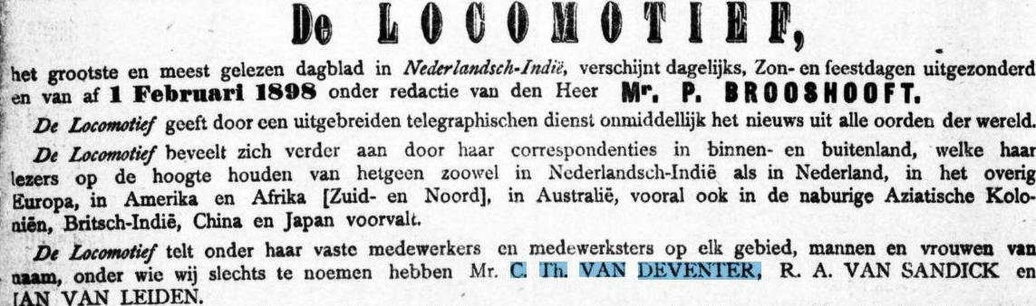 Advertentie Locomotief